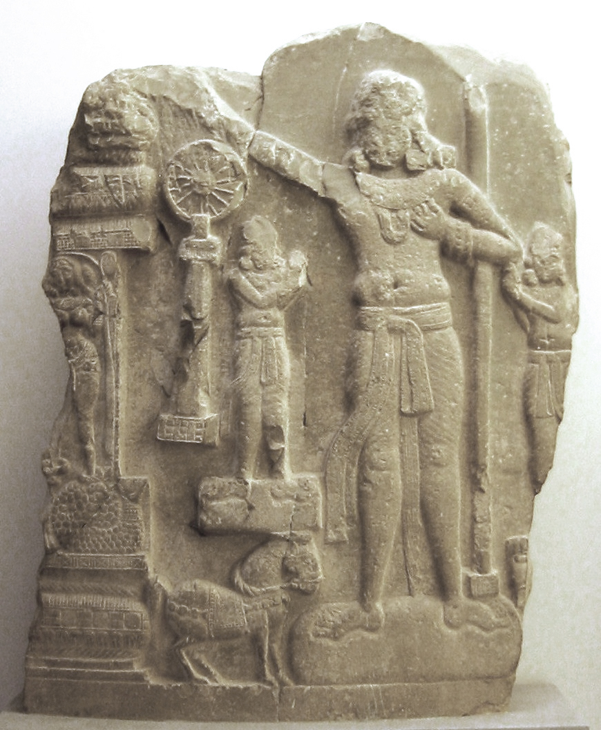 A c. 1st century BCE/CE Indian relief from Amaravathi village, Guntur district, Andhra Pradesh (India). Preserved in Guimet Museum, Paris (2005)